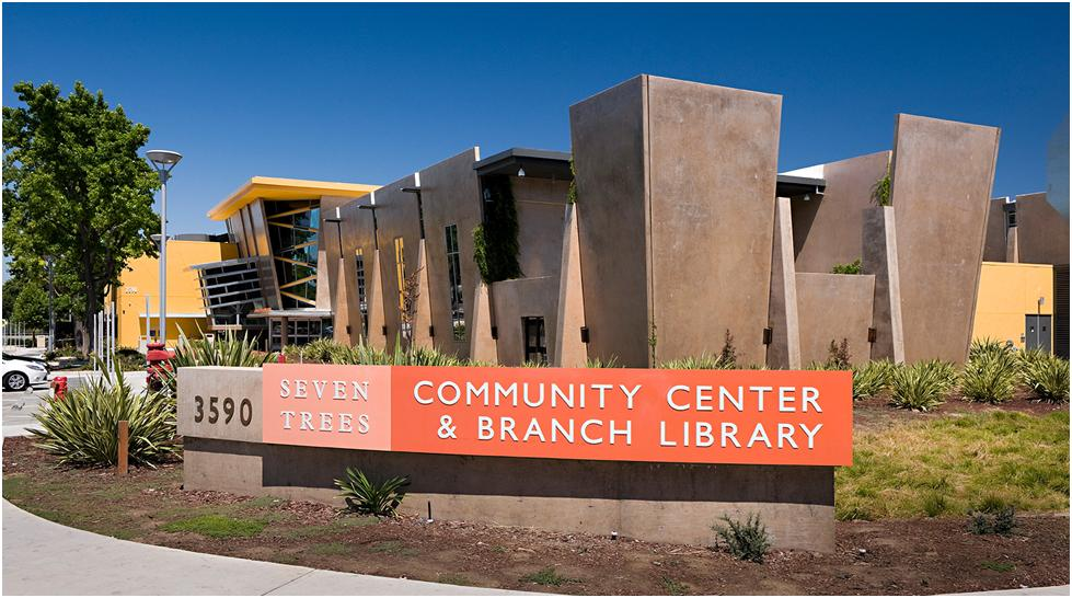 New Seven Trees Branch Library and Community Center, opening Jan. 26, 2013.